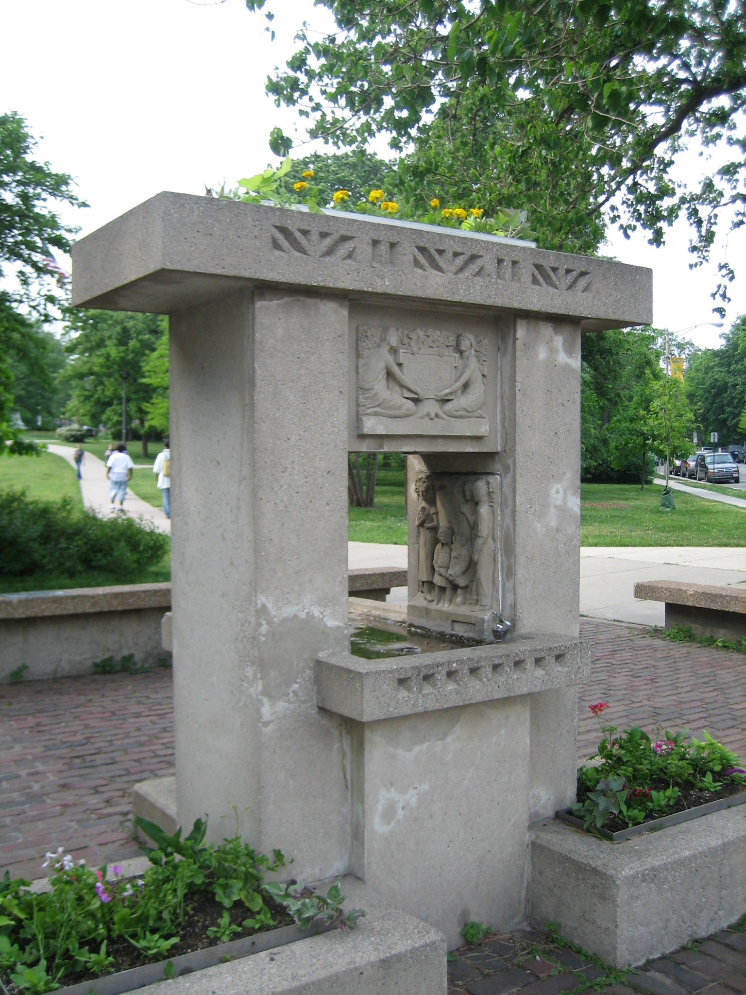 Horse Show Fountain, architect Frank Lloyd Wright, sculptor Richard Bock. 1909, relocated and restored 1969. Currently located in Scoville Park, Oak Park, Illinois. The park is listed on the U.S. National Register of Historic Places.